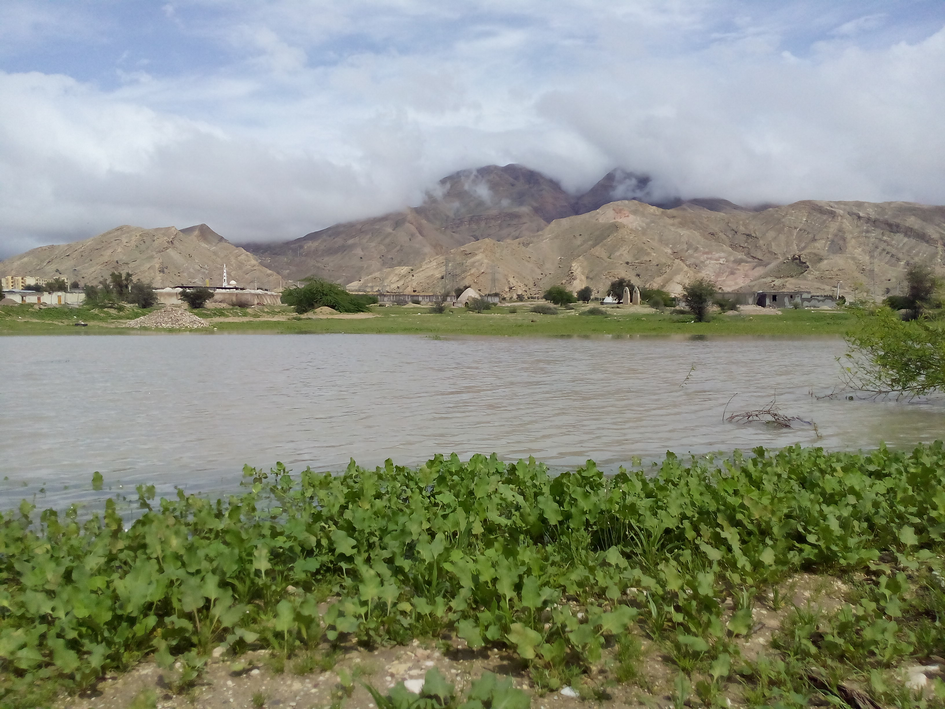 Cloudy and spring weather in Bastak